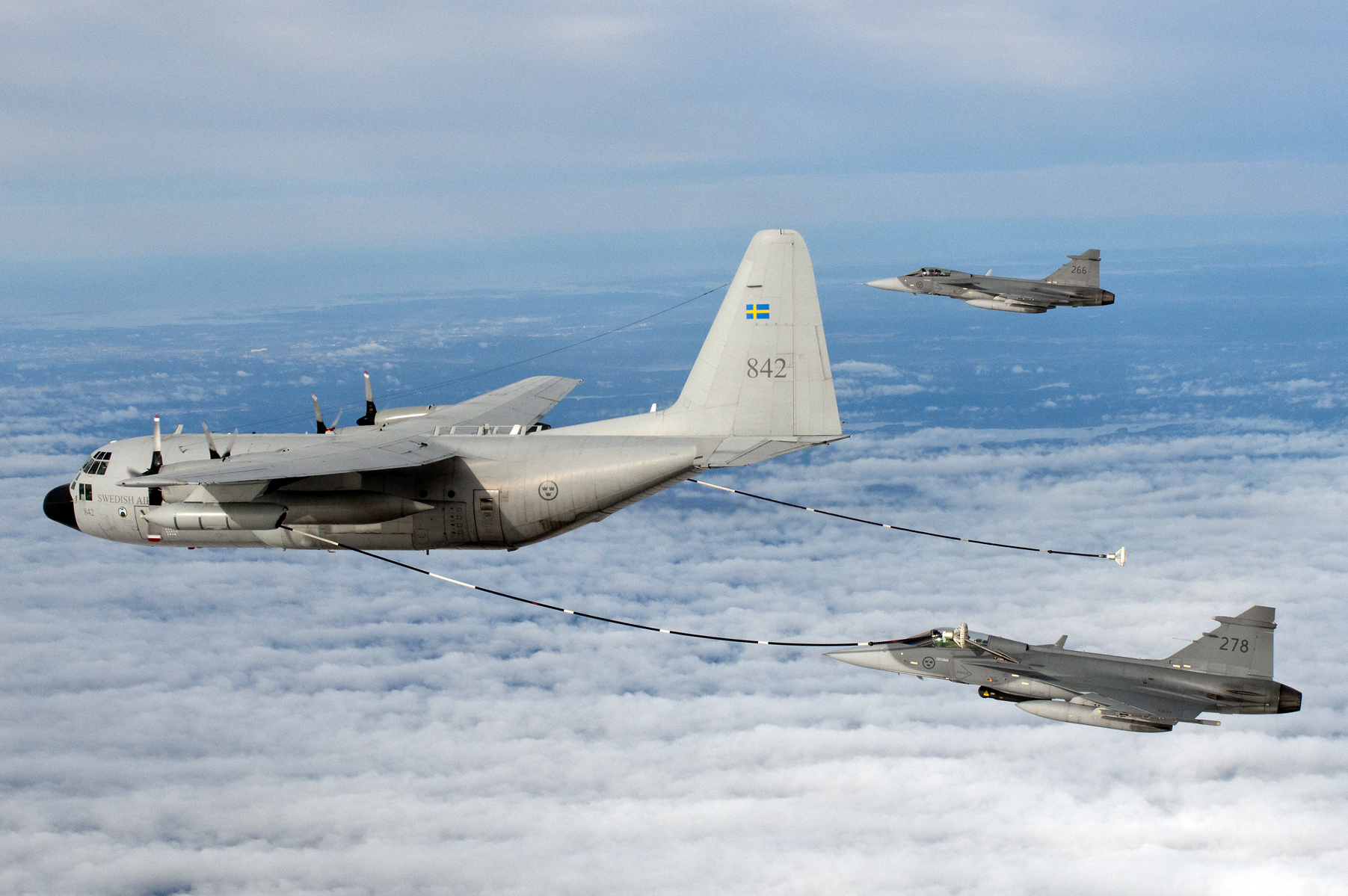 TP 84 Hercules performing inflight refuelling of 2 Swedish Air Force Saab 39 Gripens.